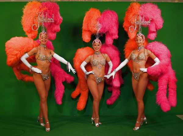 Jubilee Dancers taken in 2005 in San Diego. Jubilee! at Bally's Las Vegas was the longest-running production show in Las Vegas.